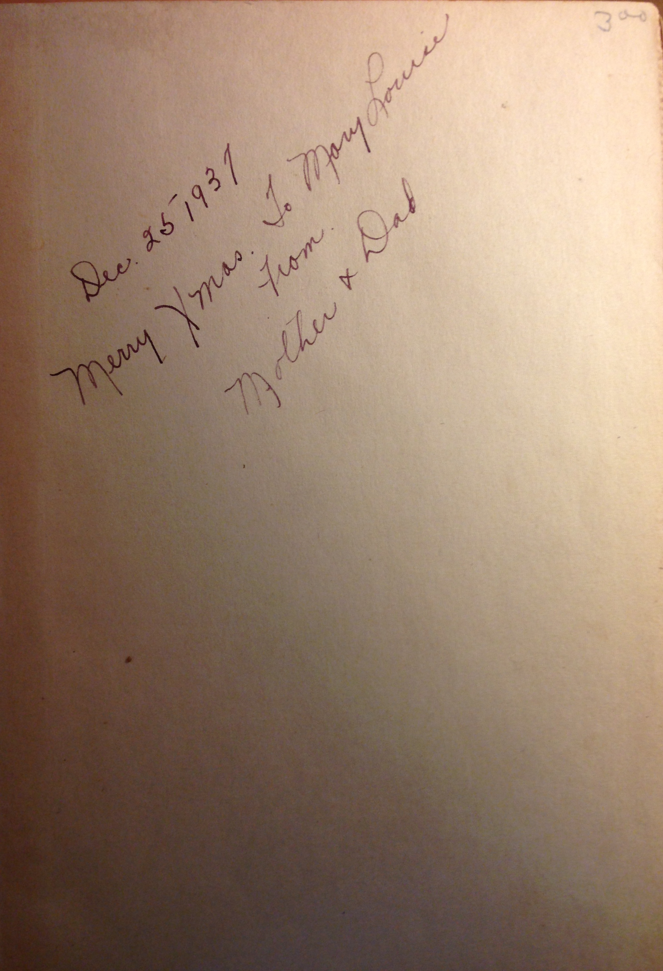 Inscription on the inside cover of a 1937 copy of Gone with the Wind (a novel).